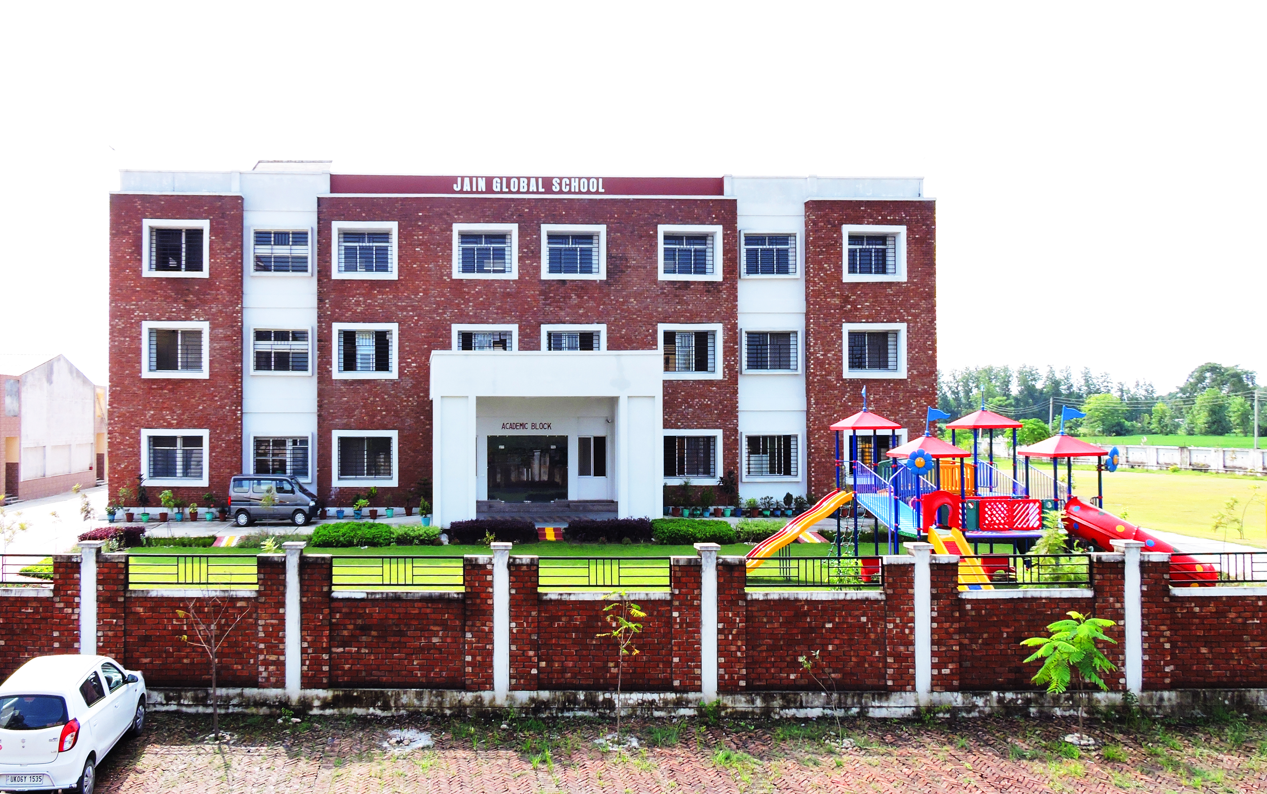 JGS building